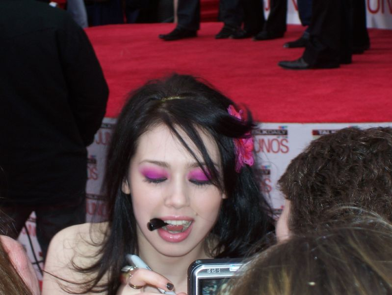 Skye Sweetnam at the Junos in Halifax